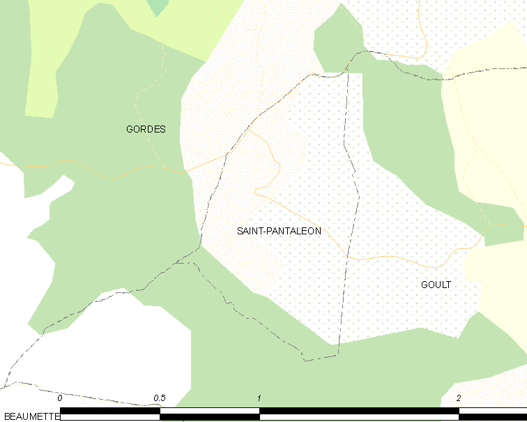 Map of French municipality Saint-Pantaléon